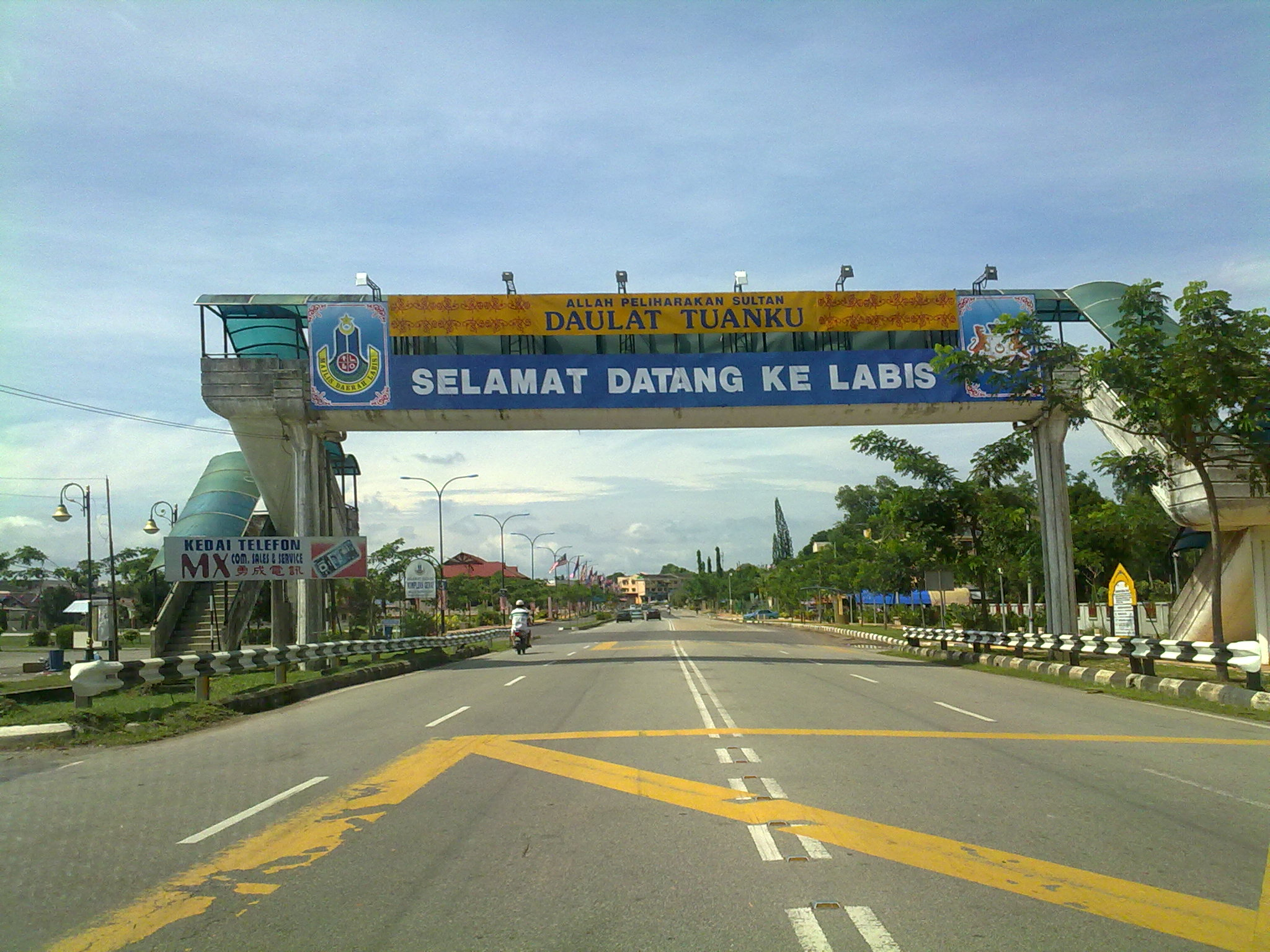 Labis Welcomes you